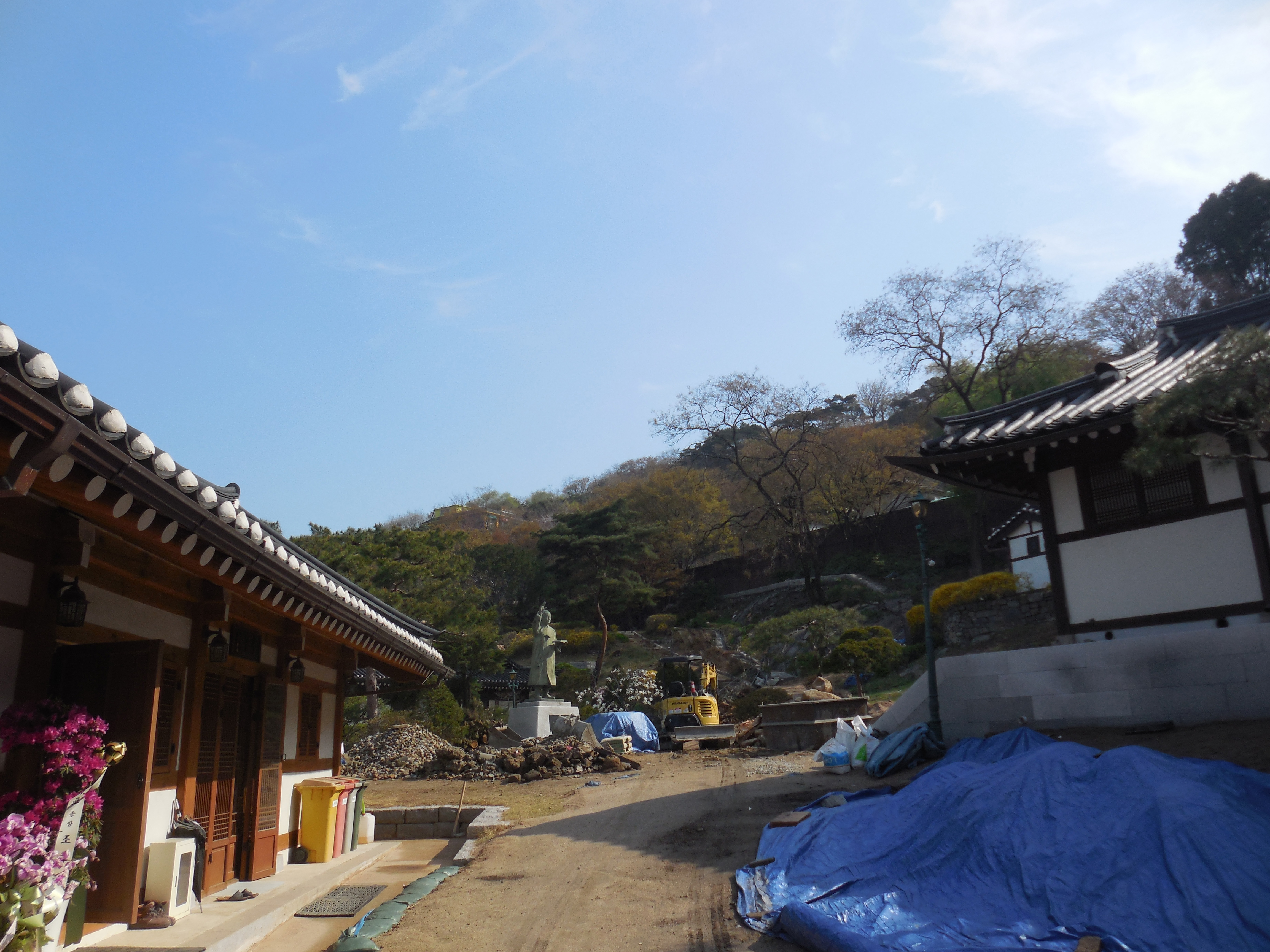 Inside of Ihwajang, house of Syngman Rhee.